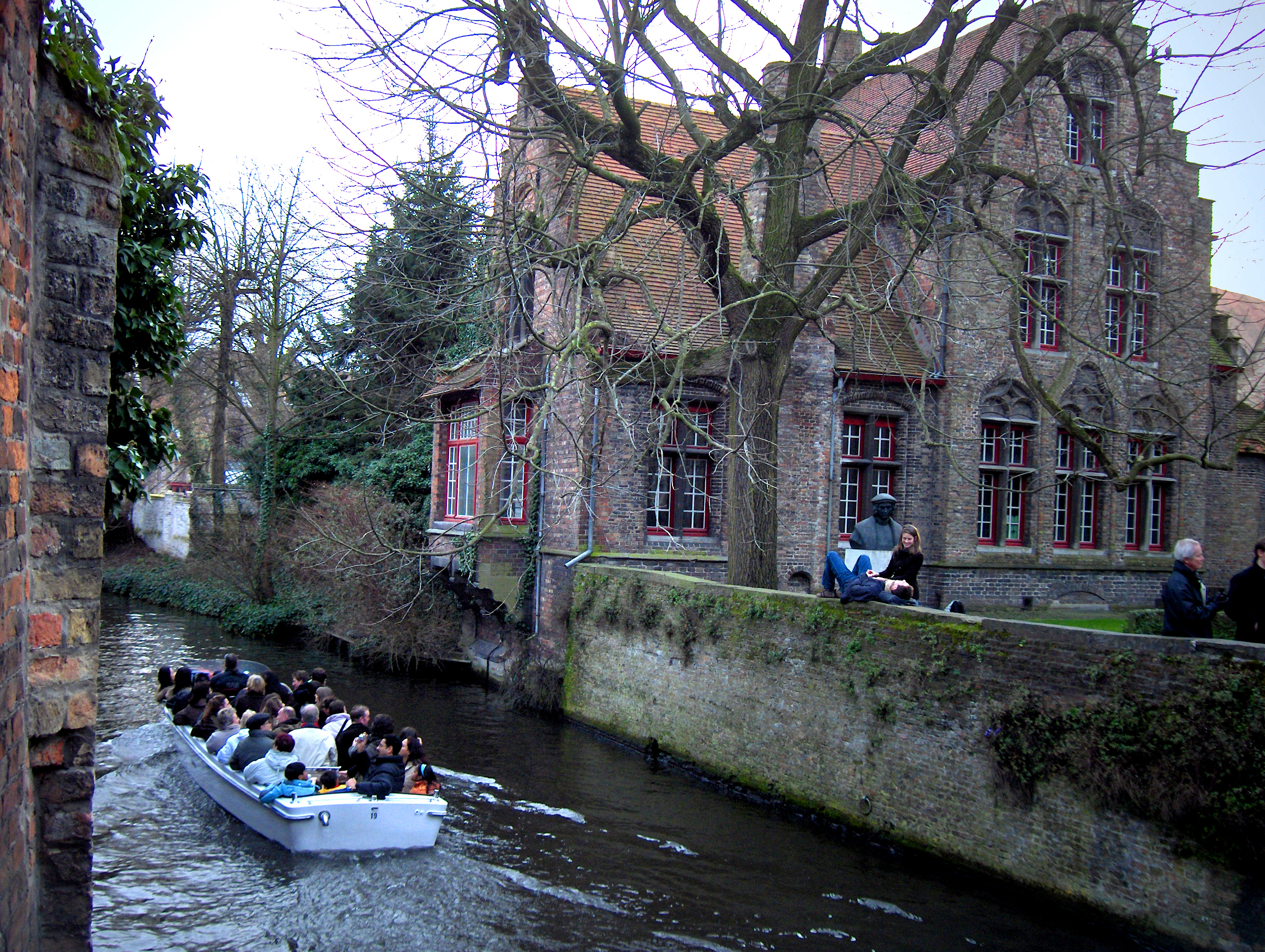 Bruges, canal Bakkersrei. A statue of the humanist Juan Luis Vives is shown at the right, in fronto of the Gruuthuse-museum.